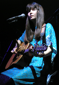 Russian poet and singer Zoya Nikolayevna Yashchenko